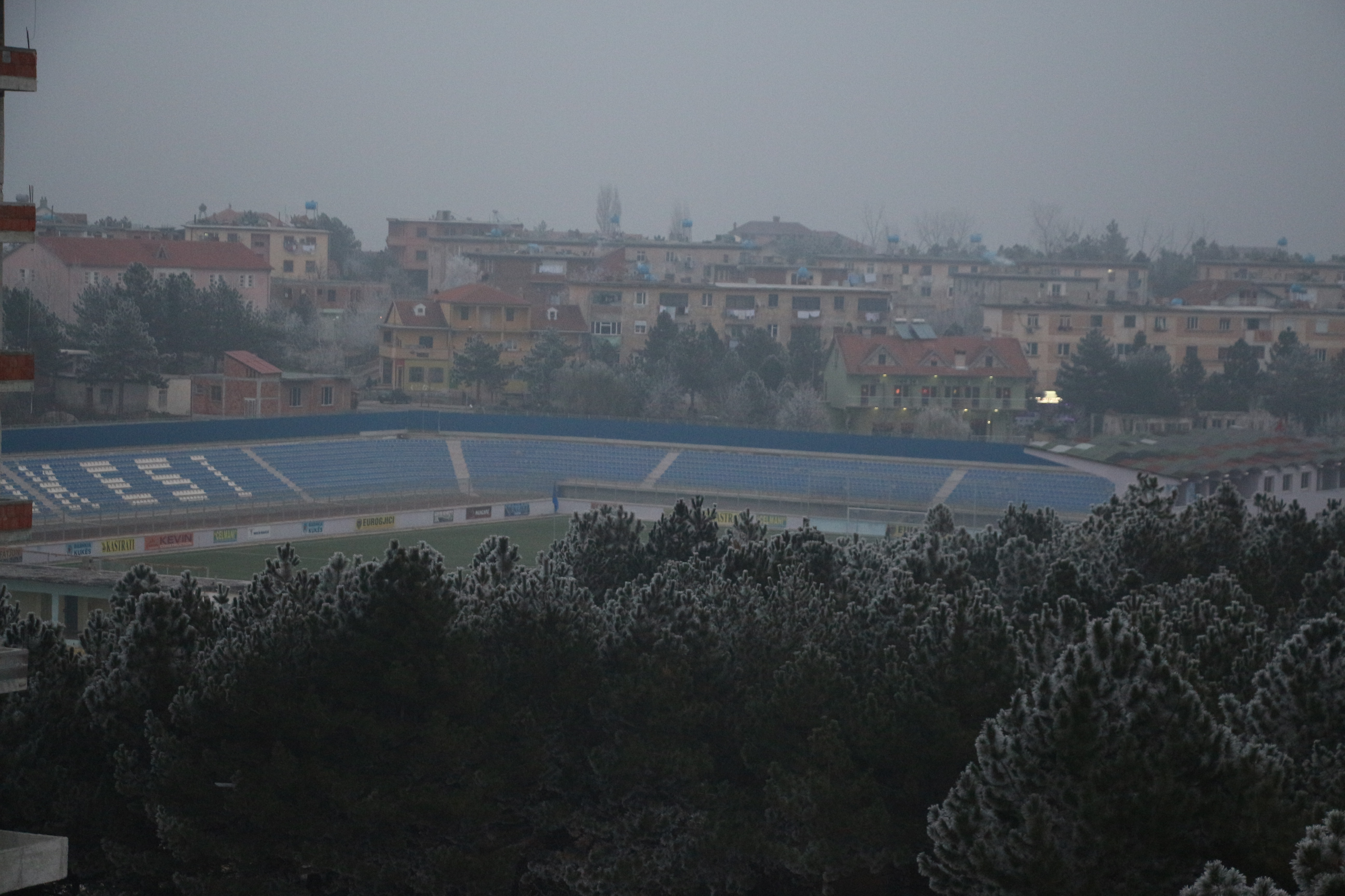 The plase where Kukes city raise his name